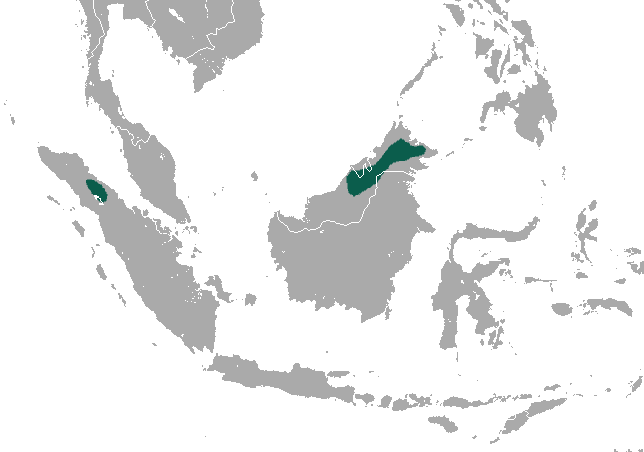 Bare-backed Rousette (Rousettus spinalatus) range